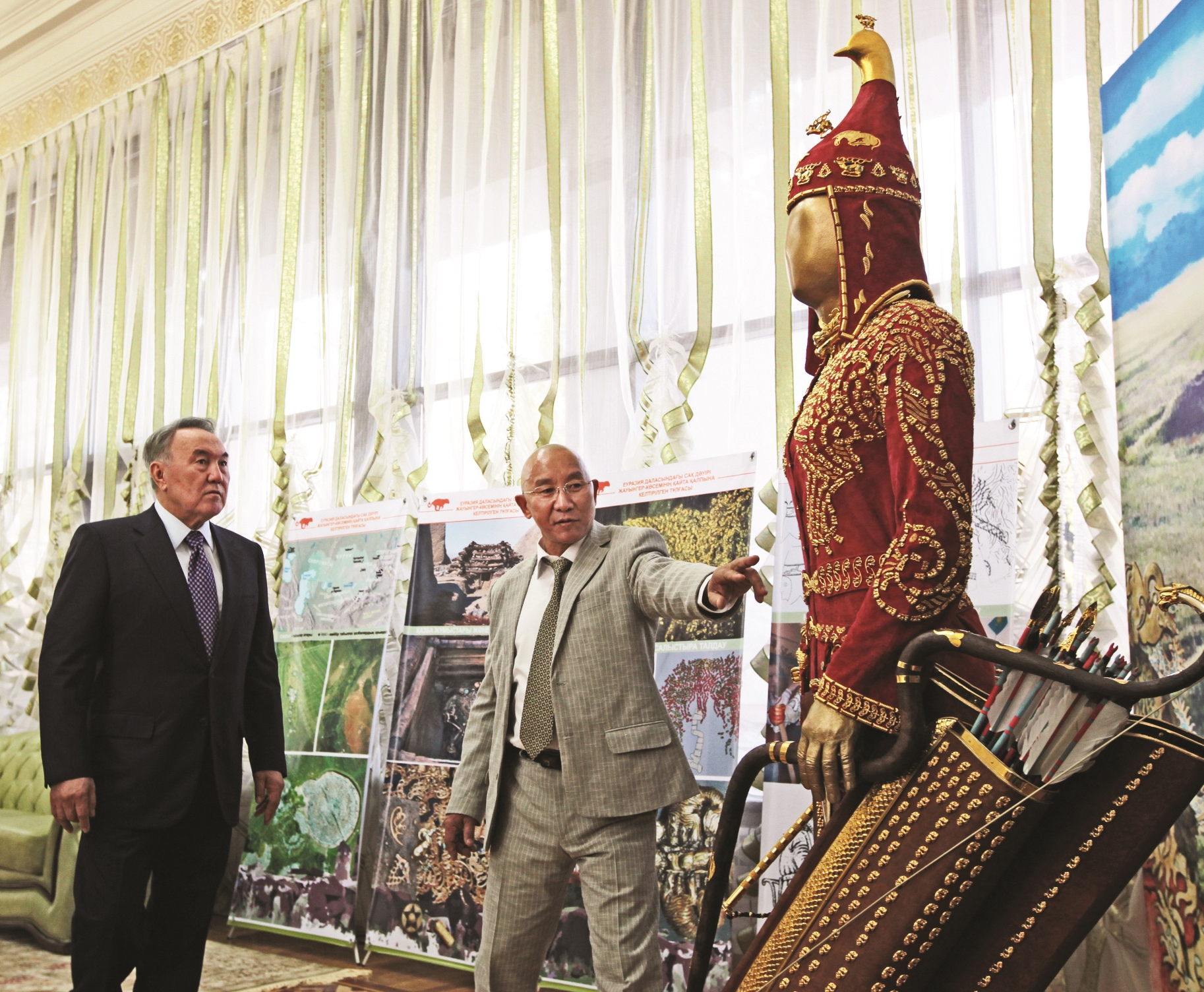 Presentation of the reconstruction of generalized image of Saka king to the President of the Republic of Kazakhstan N.A. Nazarbayev. Almaty, Friendship house, 2011. Author of reconstruction - Krym Altynbekov